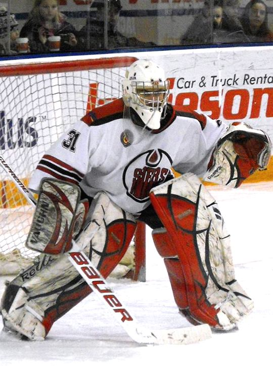 This photo was taken by Devan Mighton during the 2013-14 GOJHL season.